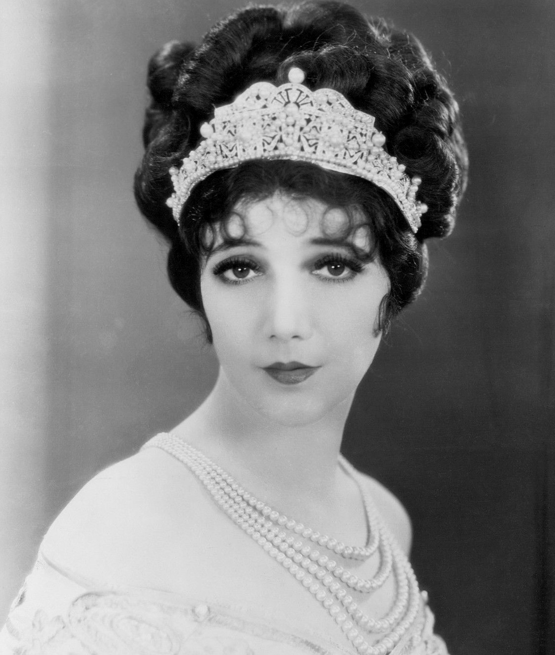 Photo of actress Jetta Goudal from the 1929 film Lady of the Pavements.